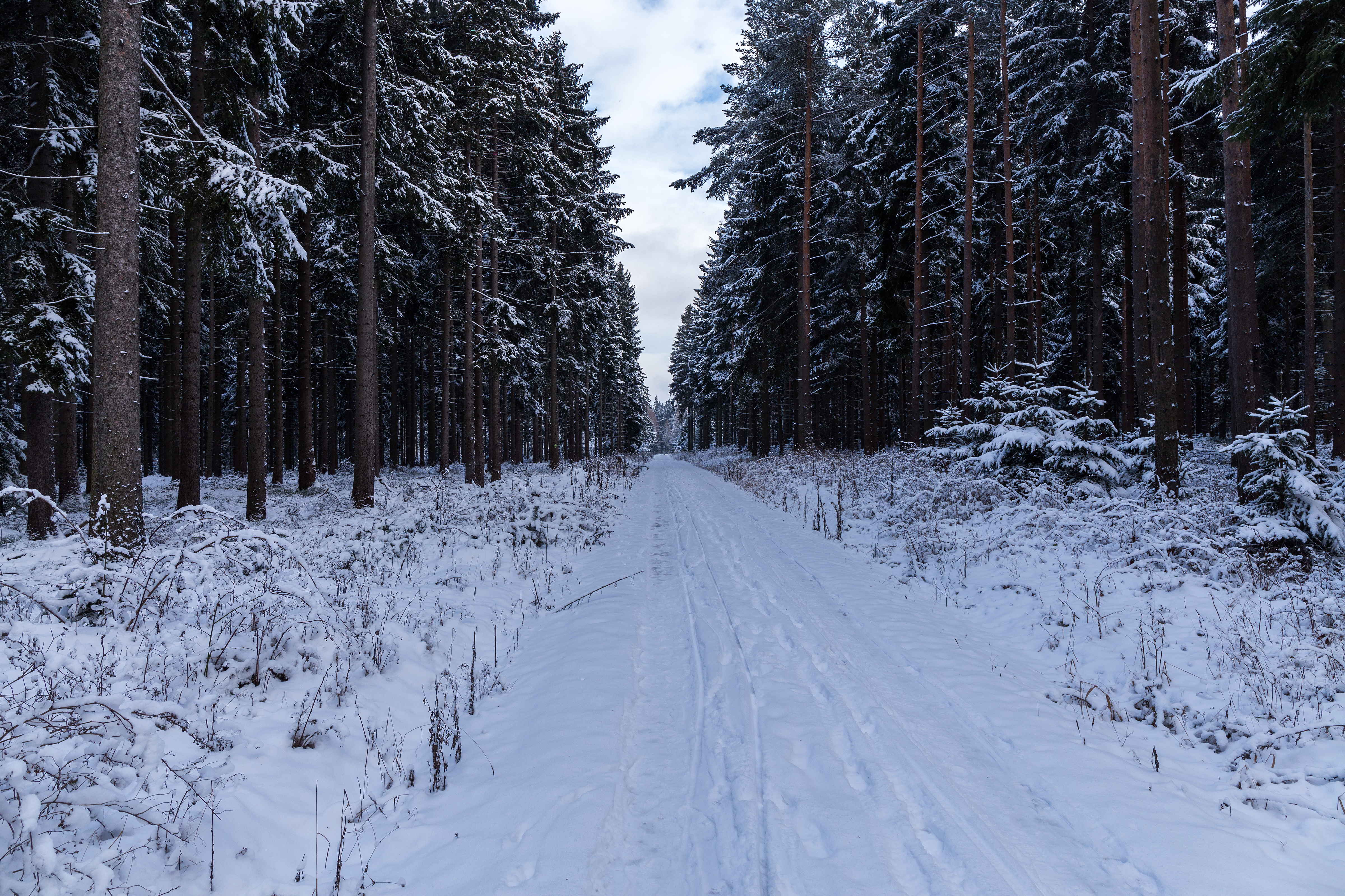 Winter landscape in the nature reserve Assberg-Hasenleite, Thuringia, Germany.